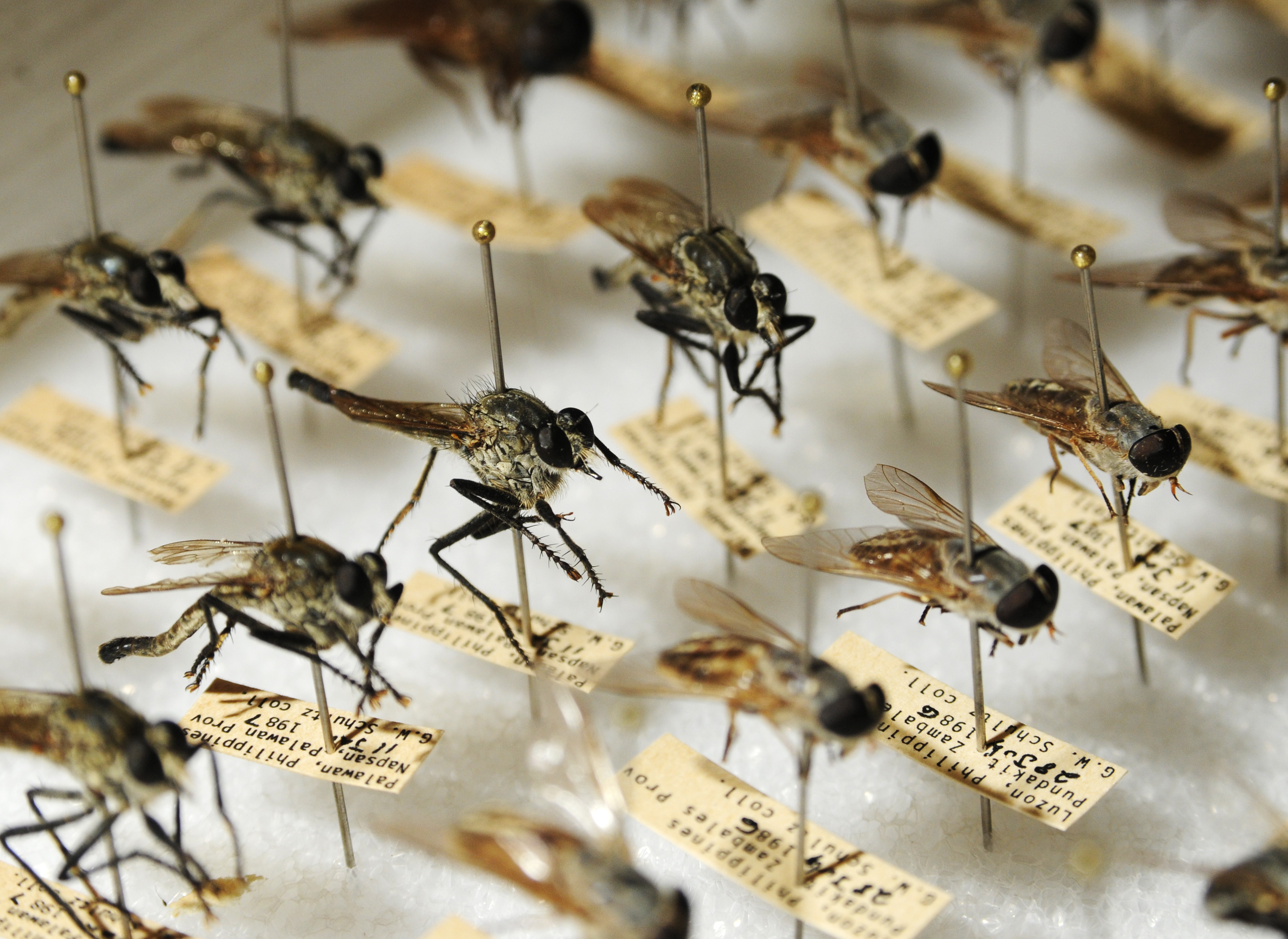 PEARL HARBOR (May 6, 2010) Sailors assigned to the entomology division of Navy Environmental and Preventive Medicine (NEPMU) 6 at Joint Base Pearl Harbor-Hickam collect various insects for study. Medical entomology is the study of insects, spiders, ticks and mites, collectively referred to as arthropods, and the diseases they transmit. NEPMU-6 supports operational forces and shore installations by providing services such as pest control training and uniform treatment with insect repellent. (U.S. Navy photo by Mass Communication Specialist 2nd Class Mark Logico/Released)